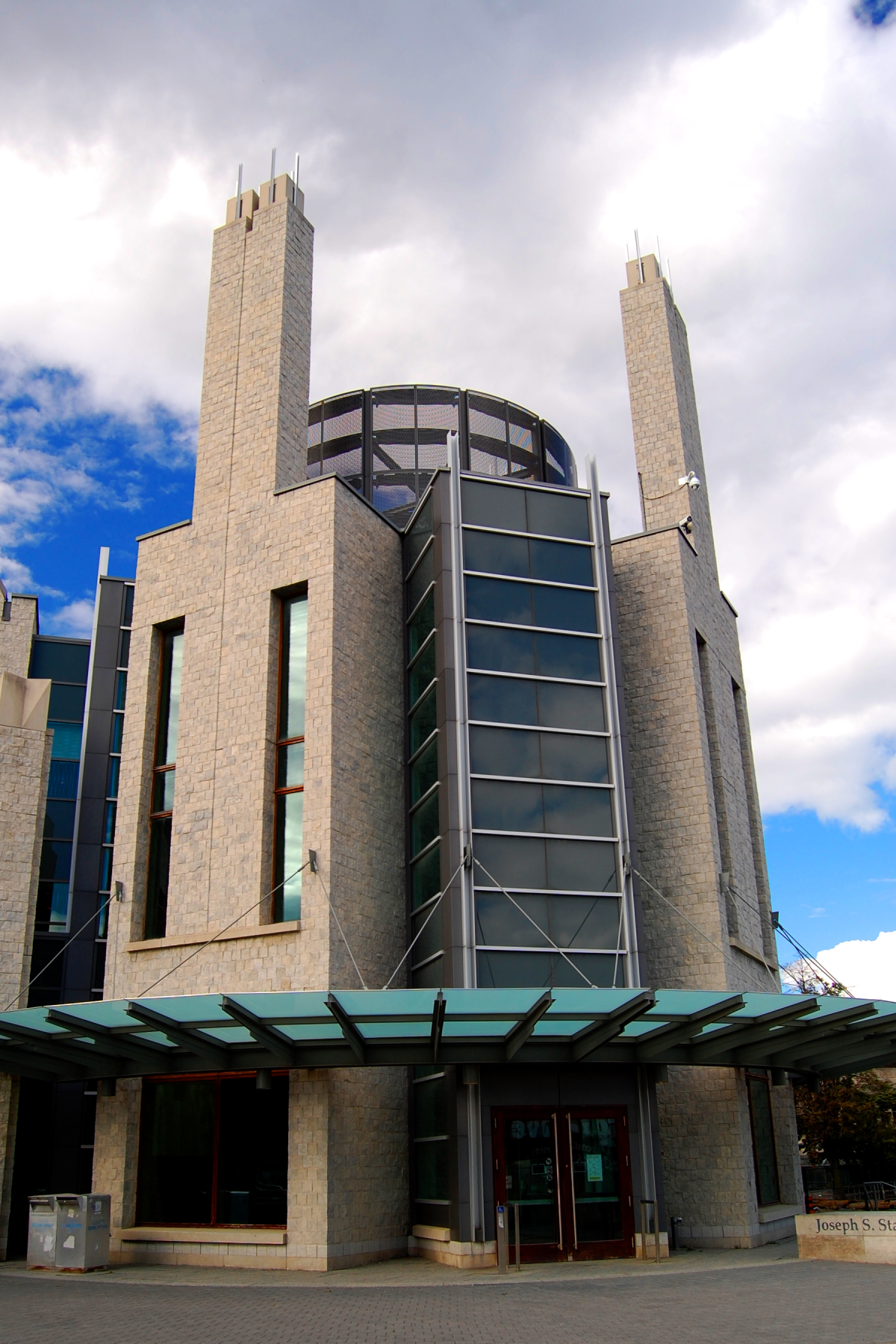 Shot on the campus of Queen's University in Kingston, Ontario, Canada.